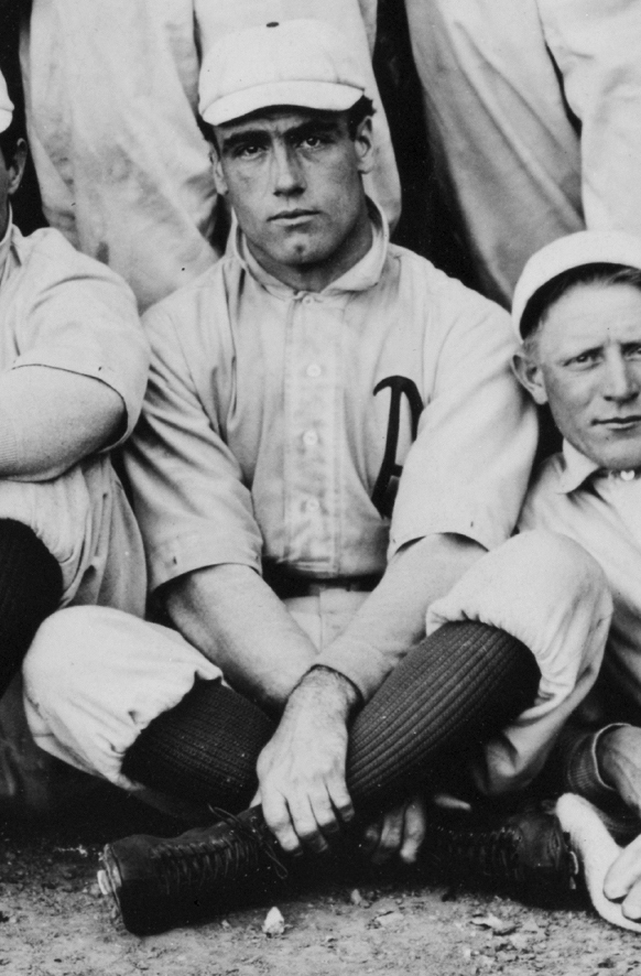 Major League Baseball player Doc Powers with the Philadelphia Athletics.